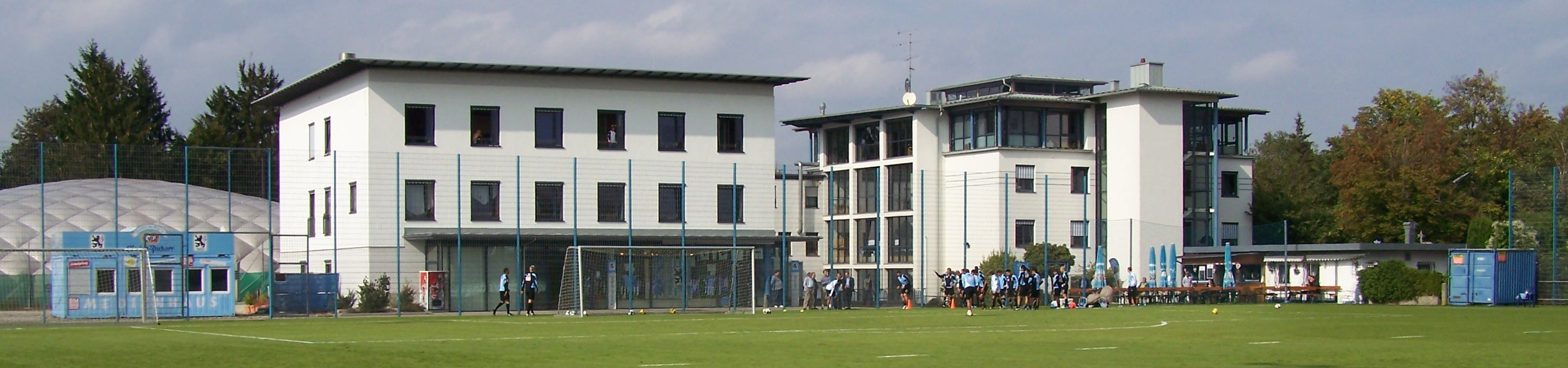 training ground and official buildings of TSV 1860 München